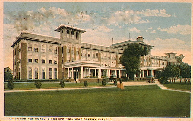 Chick Springs Hotel, Taylors, Greenville County, South Carolina, USA; completed 1914.